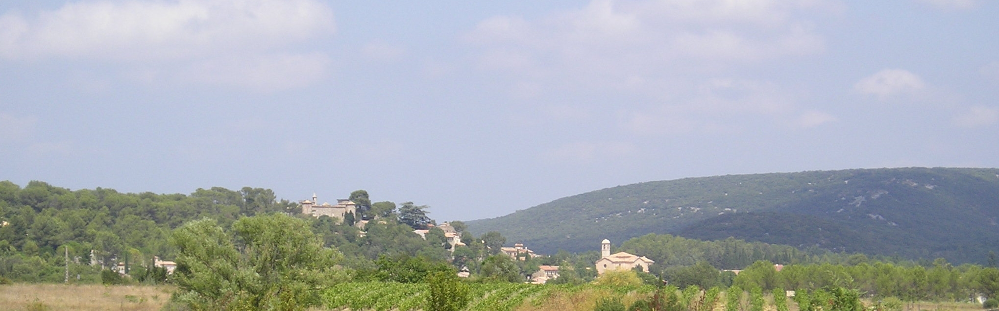 In Hérault, France, Montarnaud view from South (1.5 km from the church): the castle on the left, the 19th century church on the right.